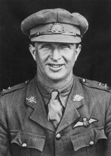 Portrait of Elwyn Roy King DSO DFC, an Australian flying ace during the First World War credited with 26 aerial victories.